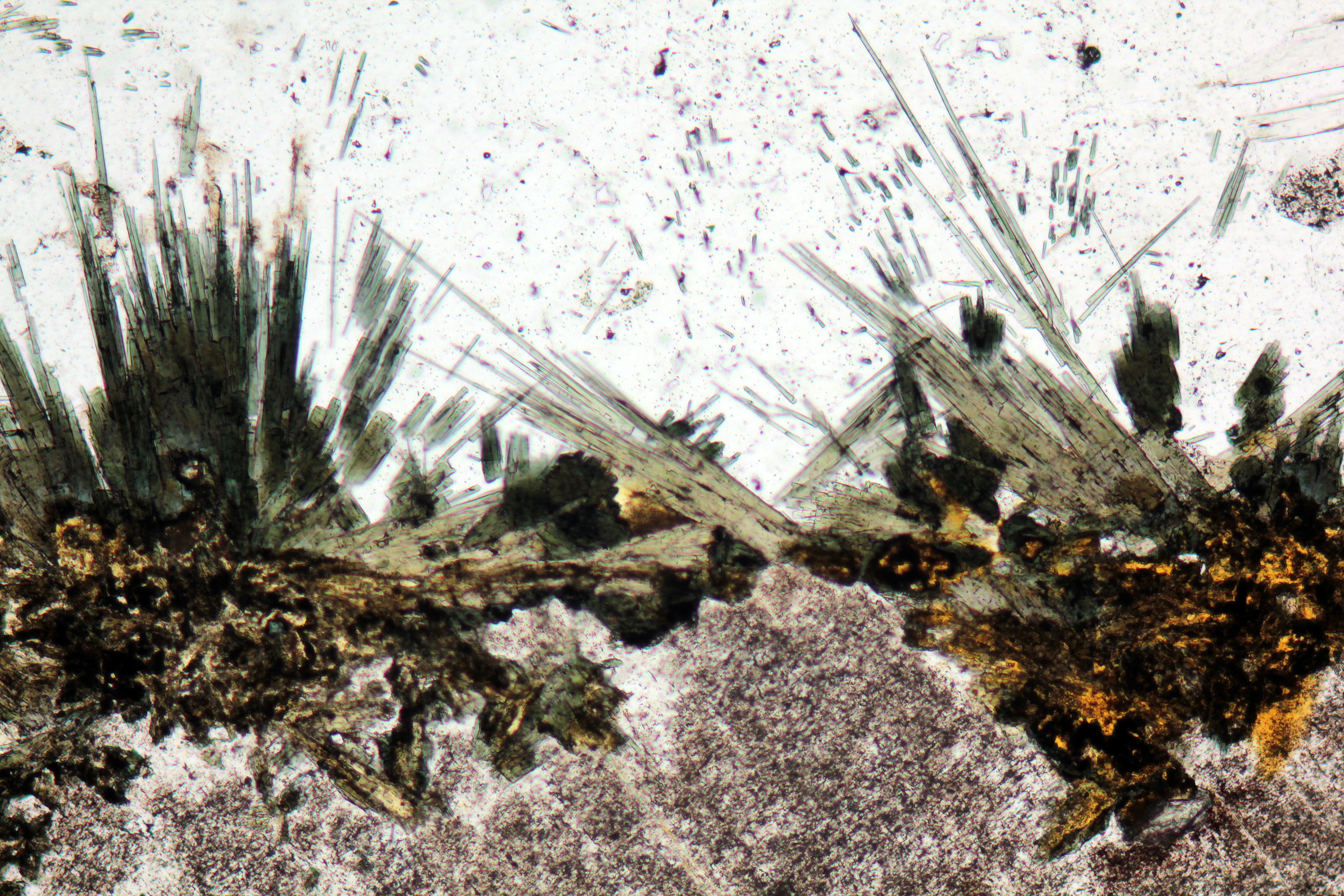 Green tourmaline aggregate in a luxullianite from Luxulyan, Cornwall, England. Plane polarized light image, magnification 10x (Field of view = 2mm)